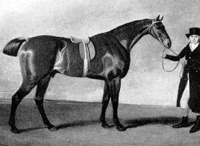 Sir Harry, winner of the 1798 Epsom Derby. Artist unknown, but certainly dead for more that 100 years.